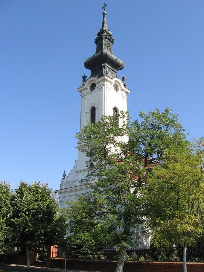 Evangelical Church Aradac